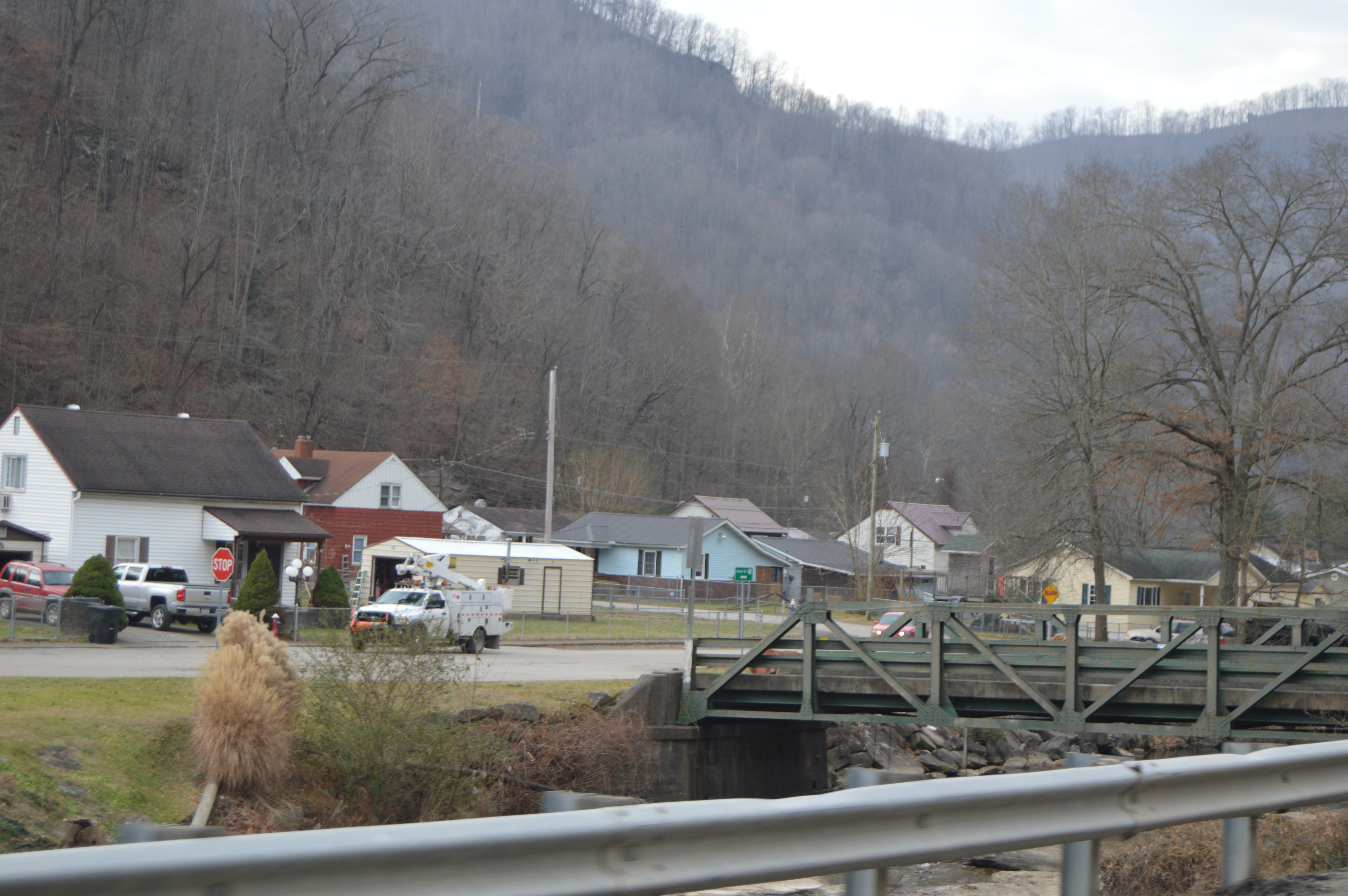 Looking south from West Virginia Route 85 over Pond Fork toward houses at Clinton in Boone County, West Virginia, United States.